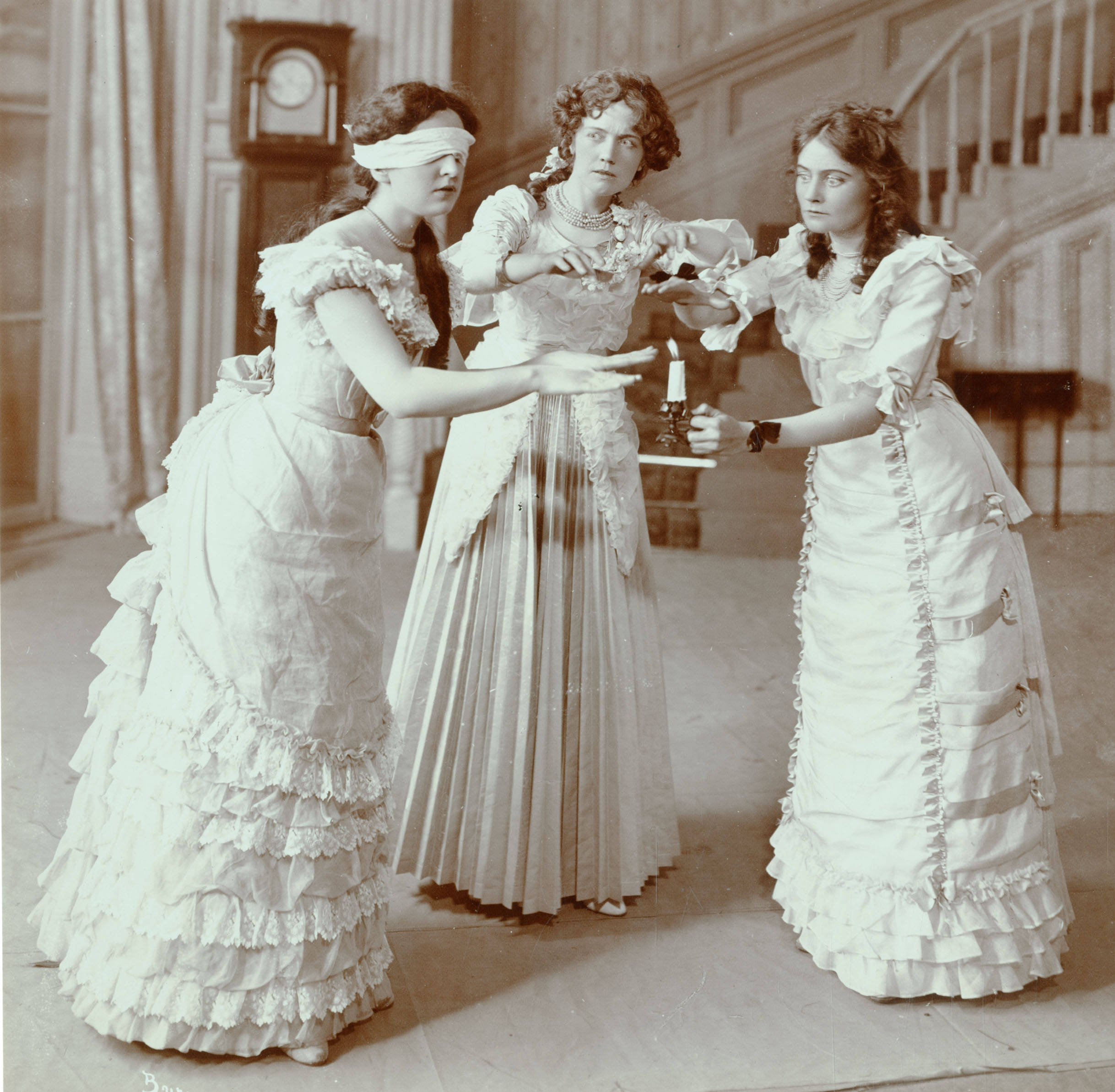 A scene from "Under Southern Skies," which opened Oct. 28, 1906, at_the Grand Opera House, Seattle. Subjects: plays